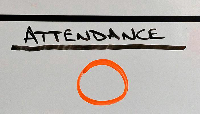 Attendance figure for the April 29, 2015, game between the Baltimore Orioles and the Chicago White Sox as printed on the whiteboard in the press room at Camden Yards, the Orioles' home stadium. The game was closed to fans due to insufficient security resources available in the wake of the recent riots in the city following the death of Freddie Gray in police custody earlier that month. It was the first (and, as of 2018, only) such game in the 145-year history of Major League Baseball